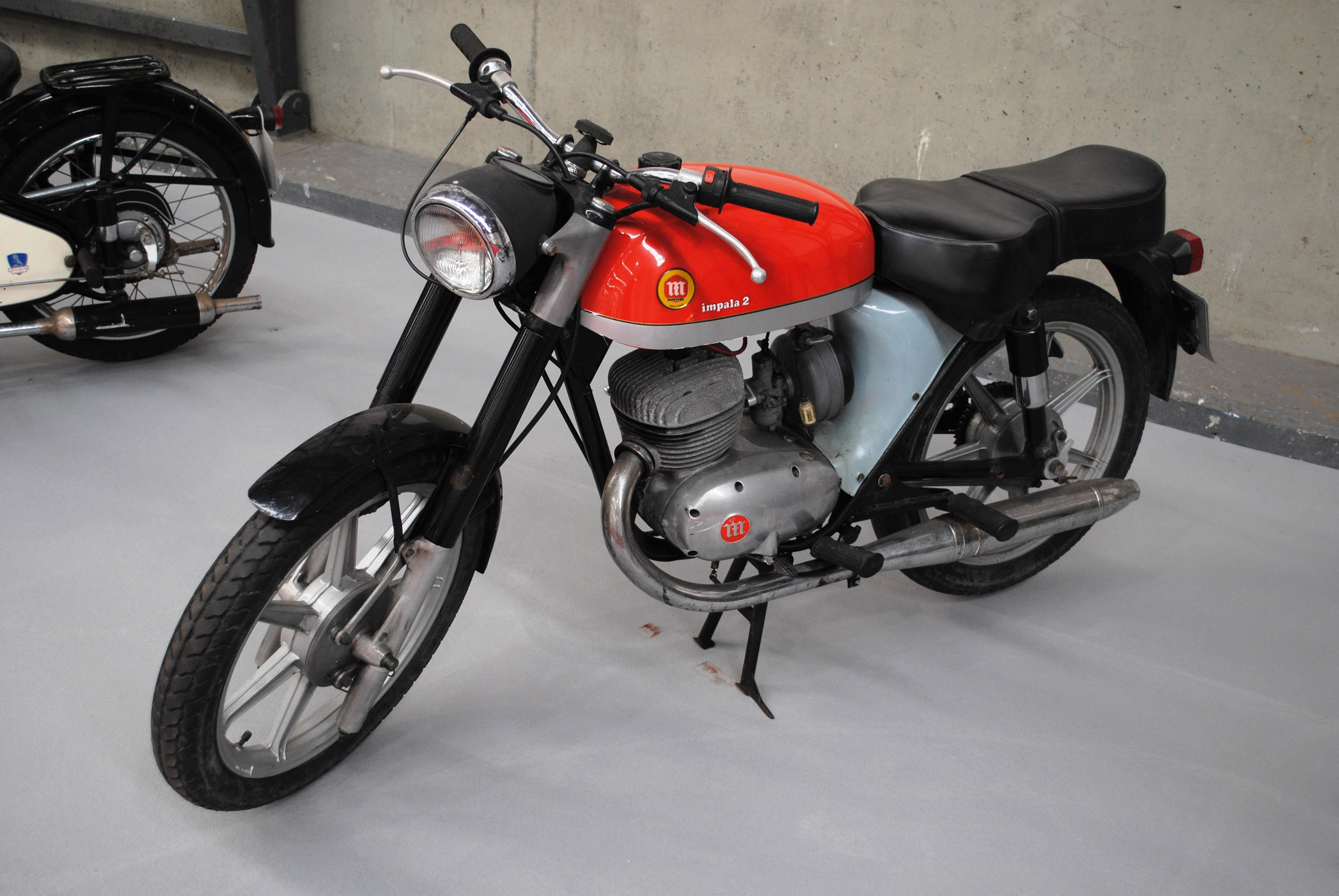 Montesa Impala 2, 1982. IFEVI, 2014